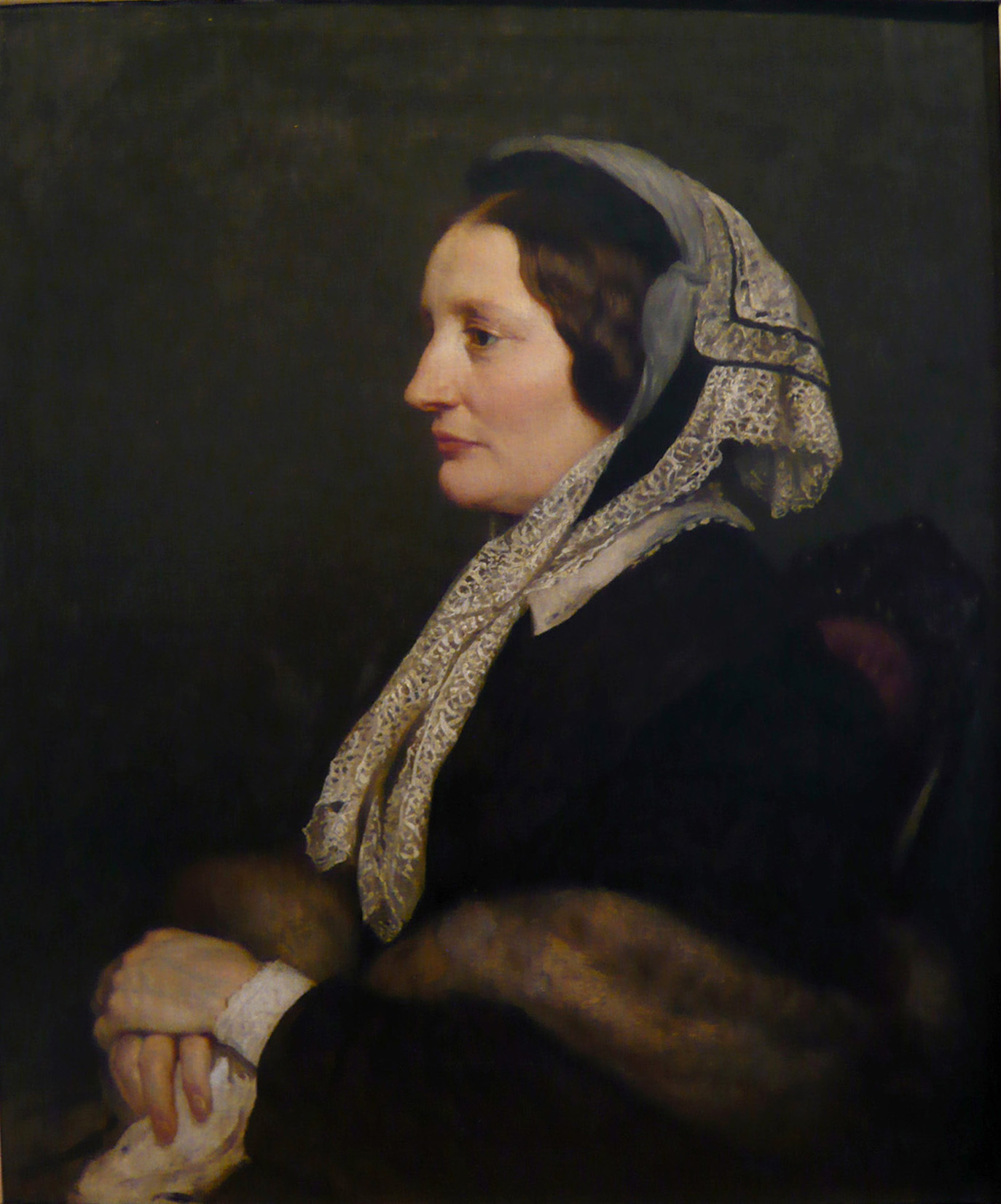 painting of his wife Emilie Auguste